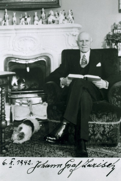 Johann Larisch-Moennich II in 1942.